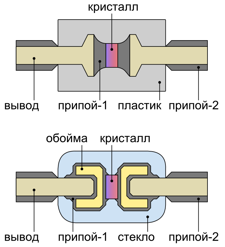 Axial-leaded diode assemblies in plastic (top) and in glass (bottom)